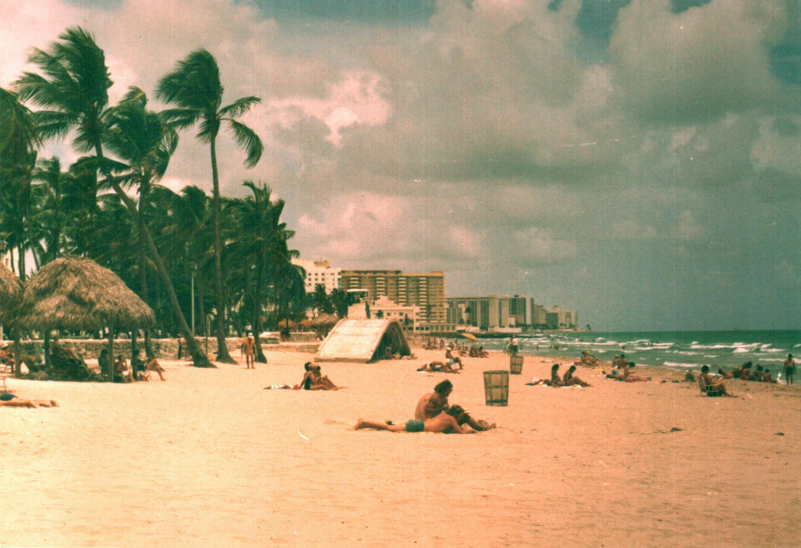 Live in Florida, august, 1977, United States of America. Boat trip. Published under Creative Commons in the Metapolisz DVD line.